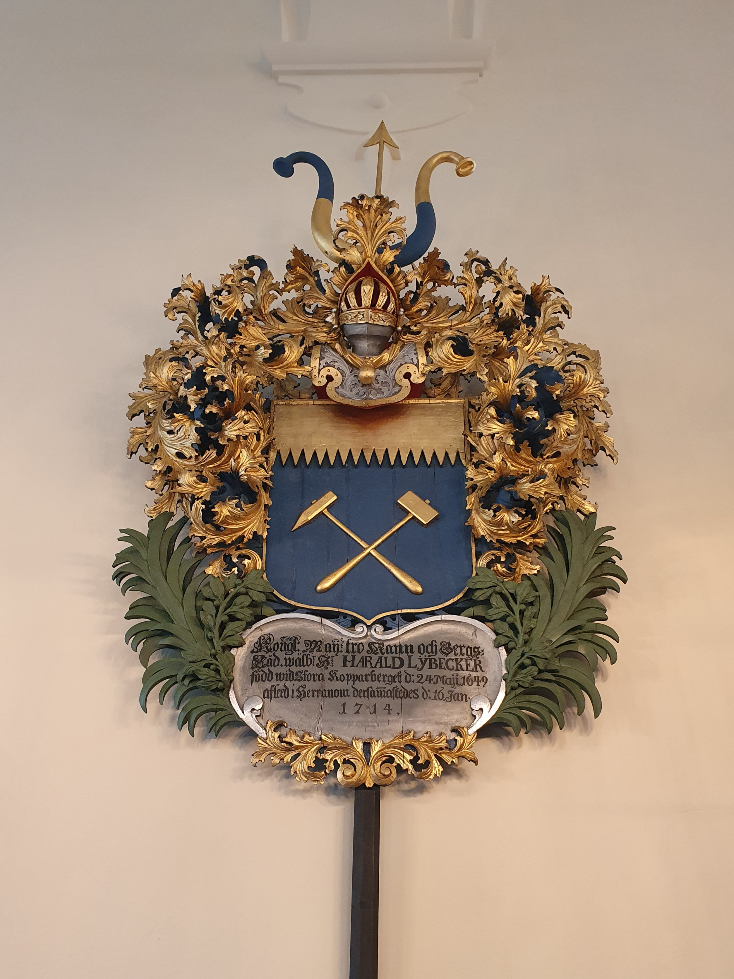 Funeral coat of arms of Harald Lybecker, died 1714, in Kristine Church, Falun.